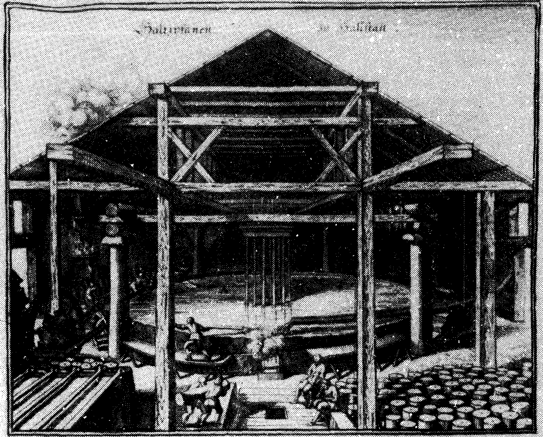 Manufacturing of saltpetre in Hallstatt.